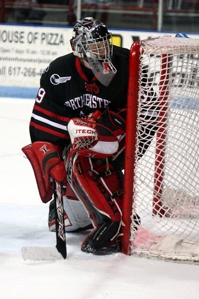 Brad Thiessen in net for the Northeastern Huskies at Matthews Arena.